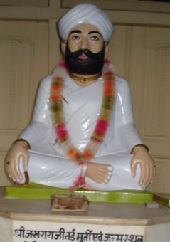 Jasrai Tard